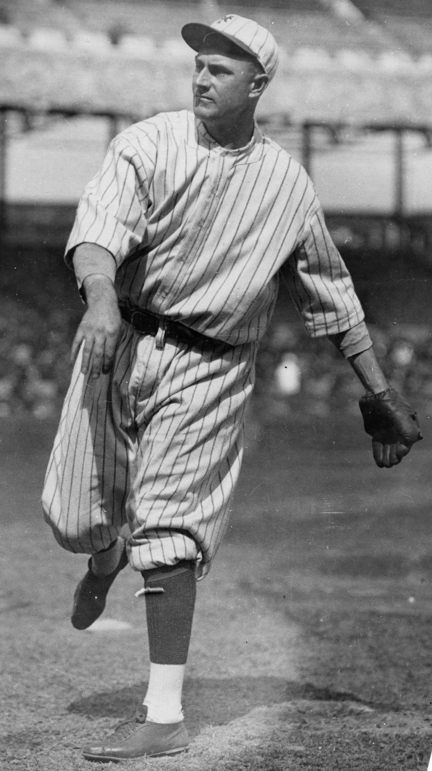 Professional baseball player Fred Toney